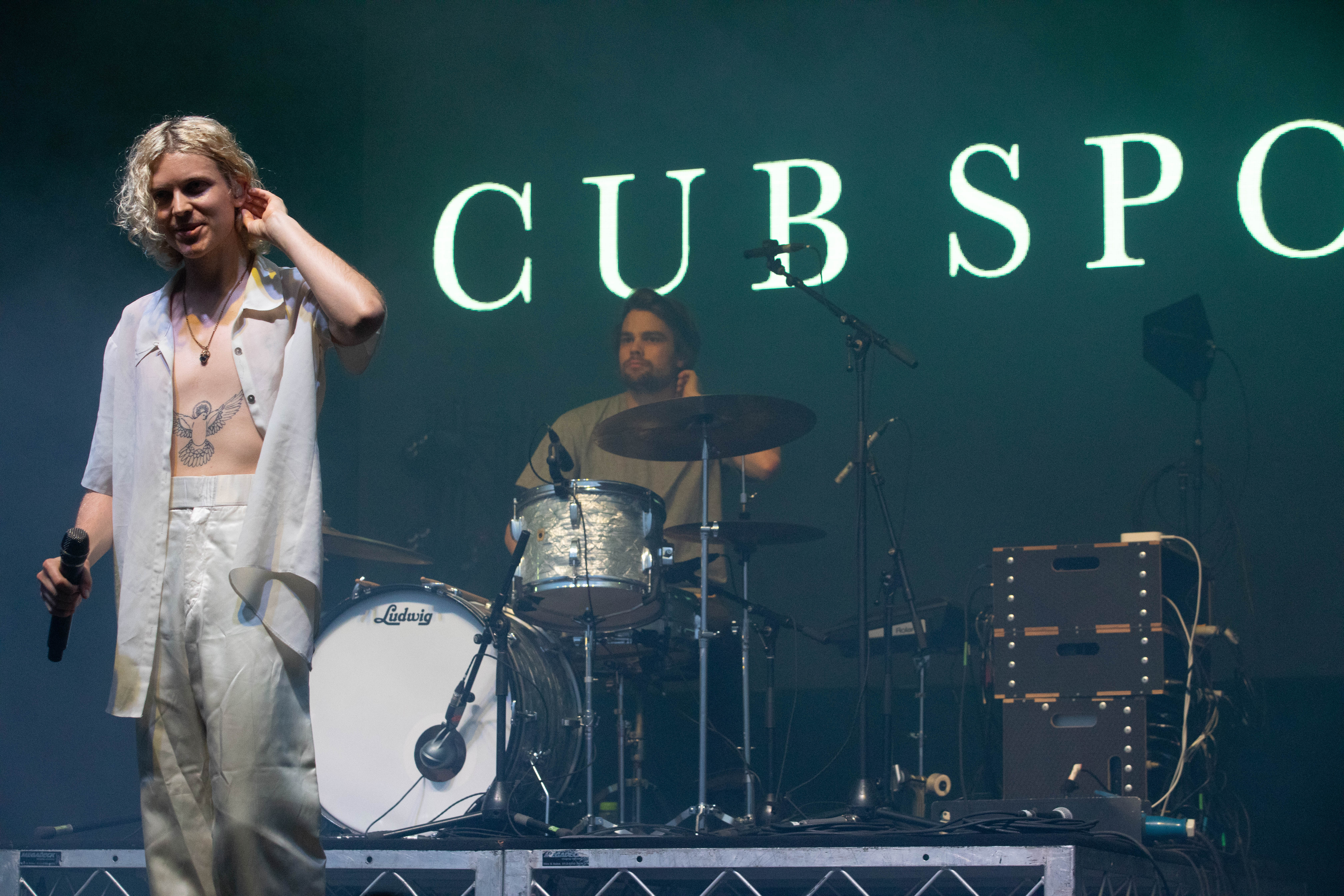 Cub Sport